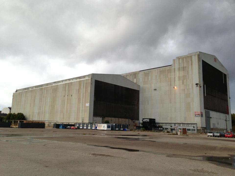 Photo of B&W Hallerne